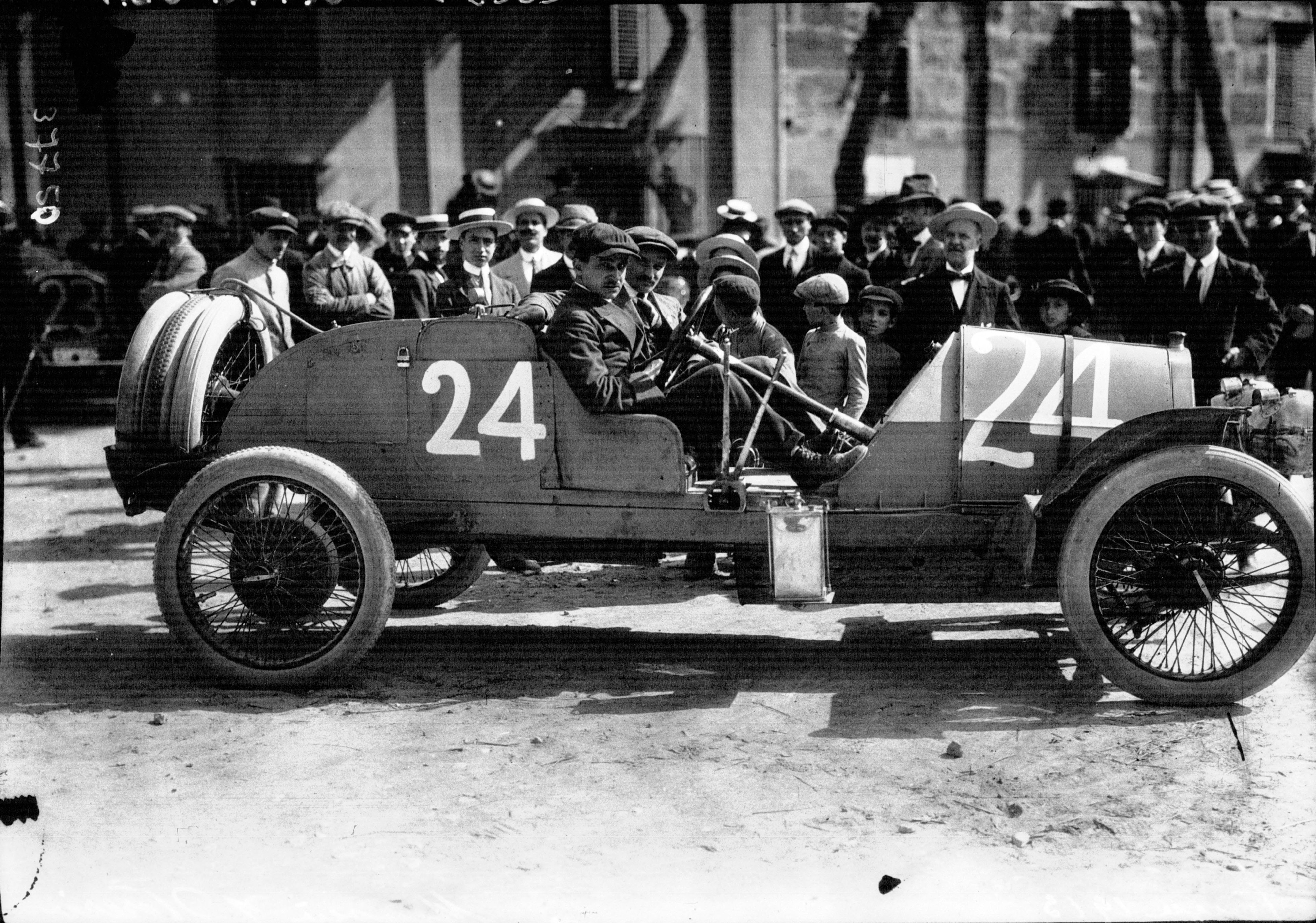 Ferdinando Minoia in his Storero at the 1913 Targa Florio.